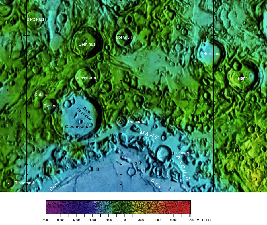 Part of the USGS near side lunar chart.